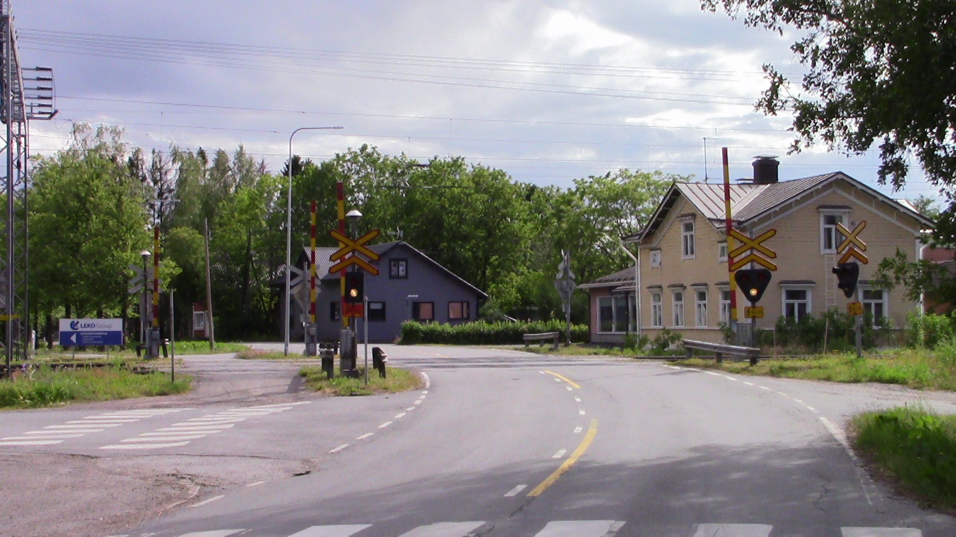 Finnish connecting road 2143 at Peipohja in Kokemäki.